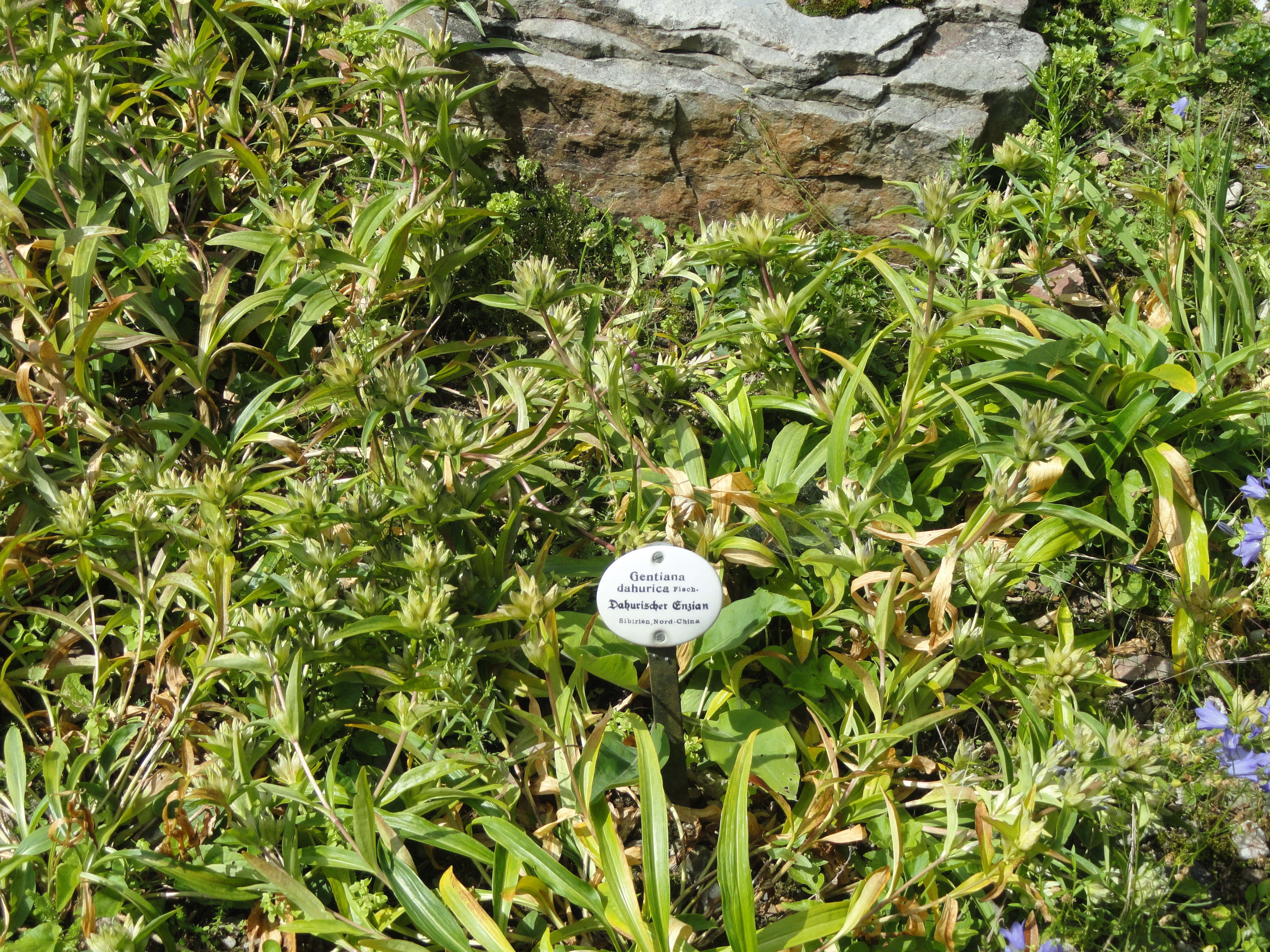 Botanical specimen in the Botanischer Garten, Frankfurt am Main, located at Siesmayerstraße 72, Frankfurt am Main, Germany.